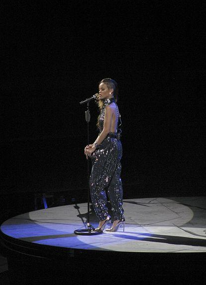 Rihanna at the Air Canada Centre